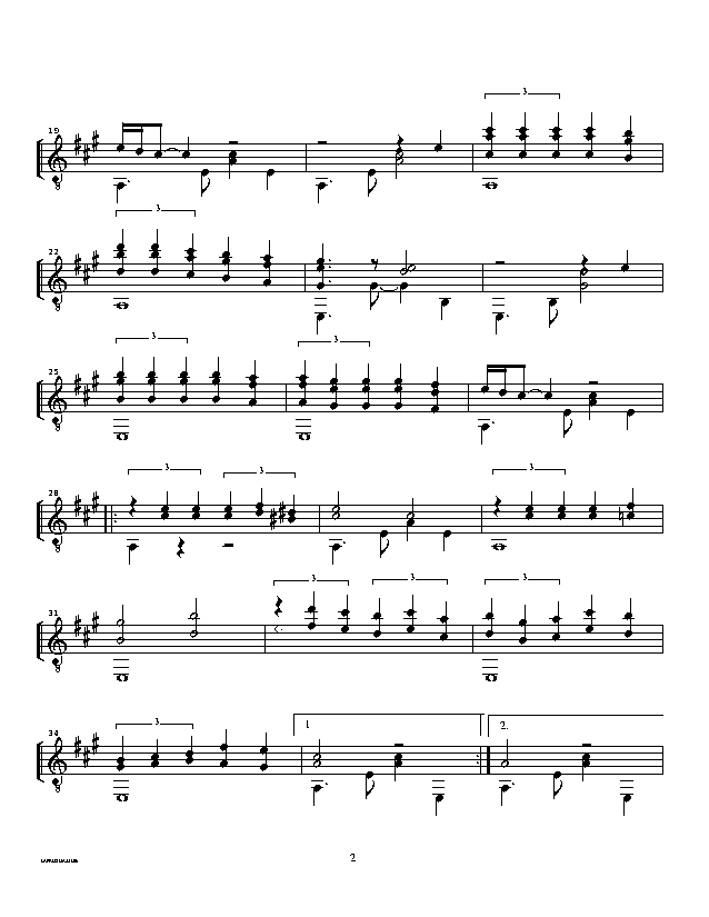 La Paloma (music)